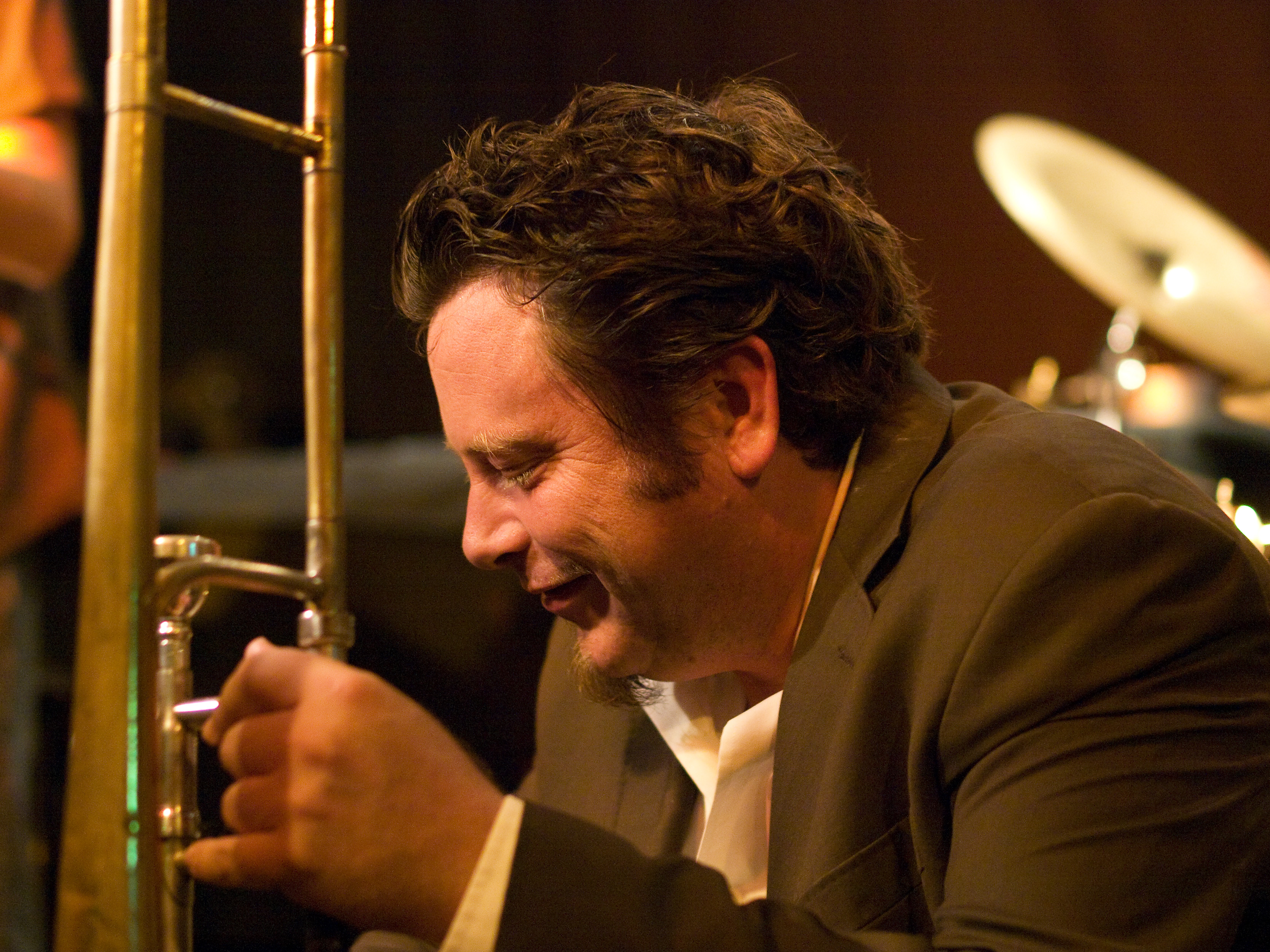 Adrian Mears, trombone, picture taken in Jazz club "Unterfahrt" in Munich/Germany